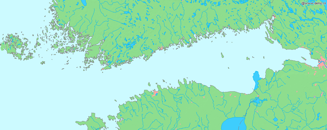 Gulf of Finland. Bounding box West 19.5°, South 58.8°, East 30.5°, North 61.0°. Center at 59°54′00″N 25°00′00″E / 59.90000°N 25.00000°E.